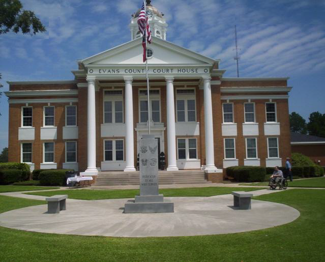 Picture of the Evans County courthouse taken August 11, 2008 just after the Evans County Day celebration